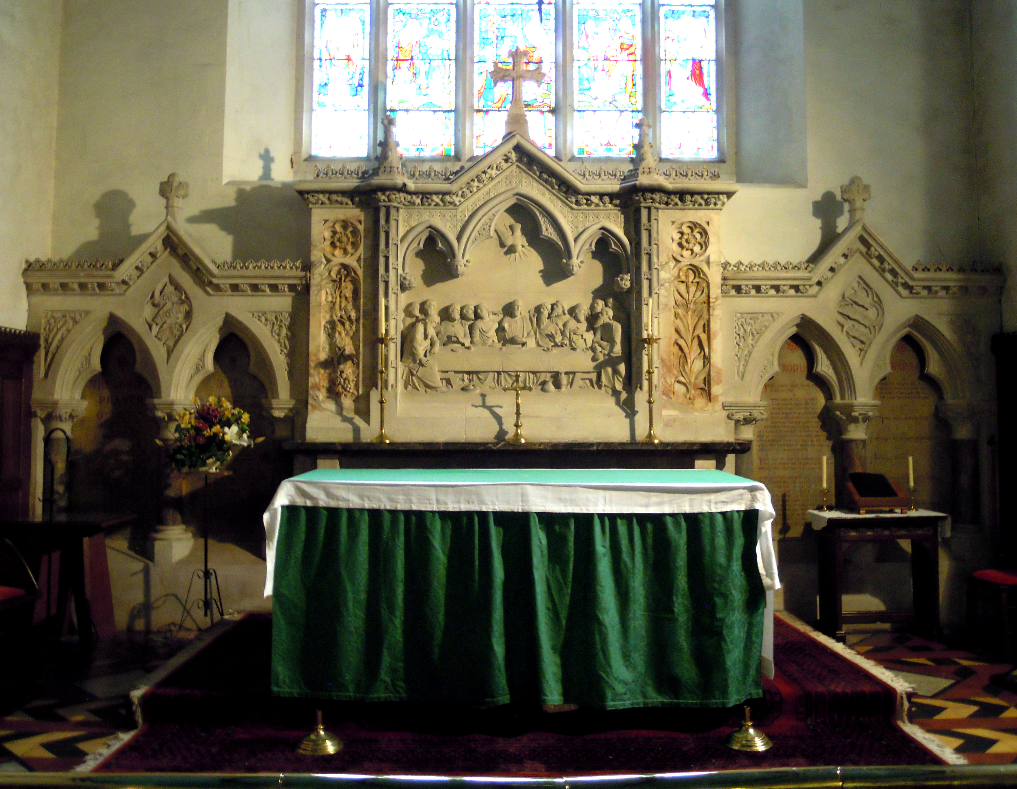 The altar and reredos at the Church of St Michael and All Angels, Great Torrington in Devon